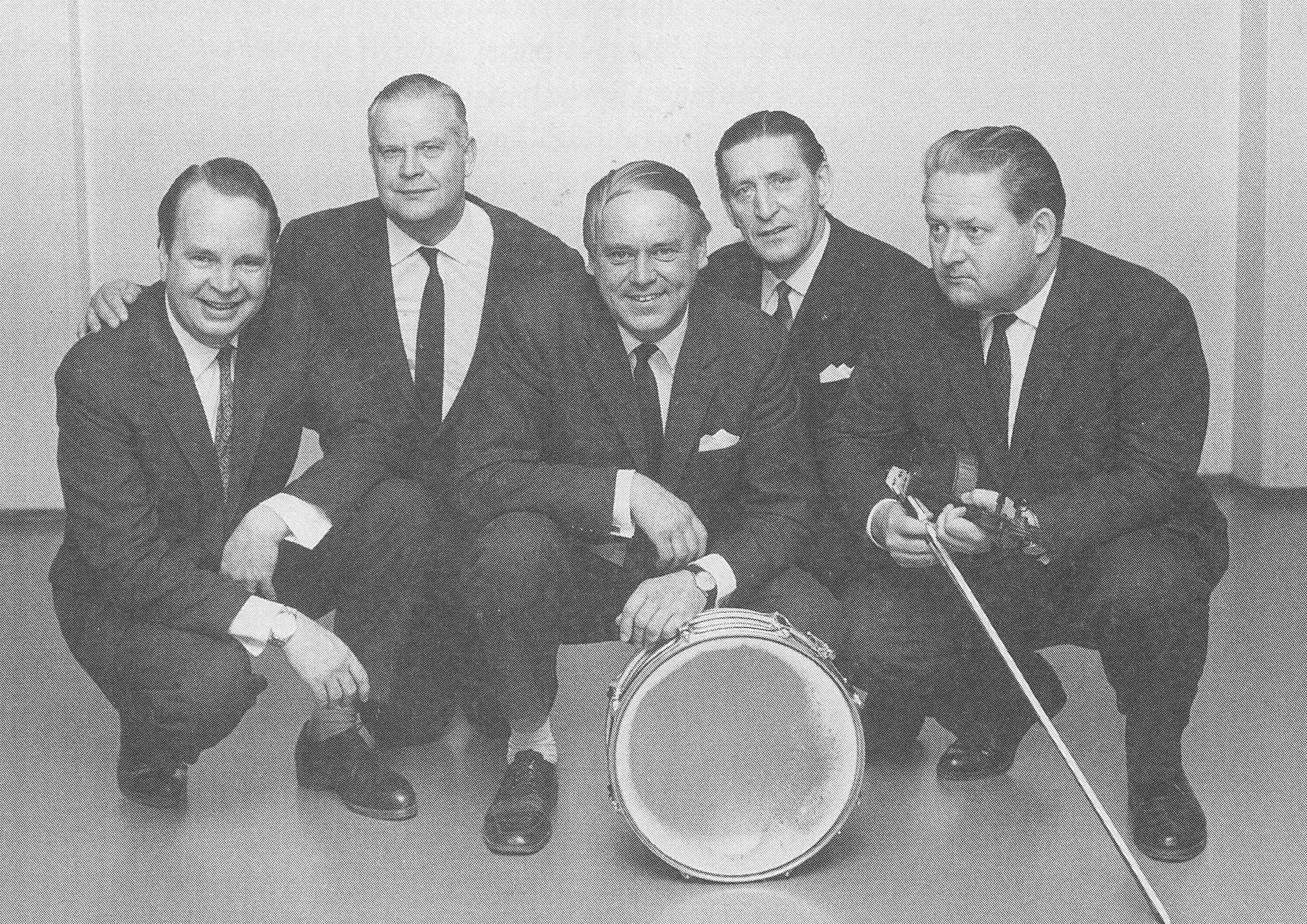 Jorma Juselius and his group year 1960